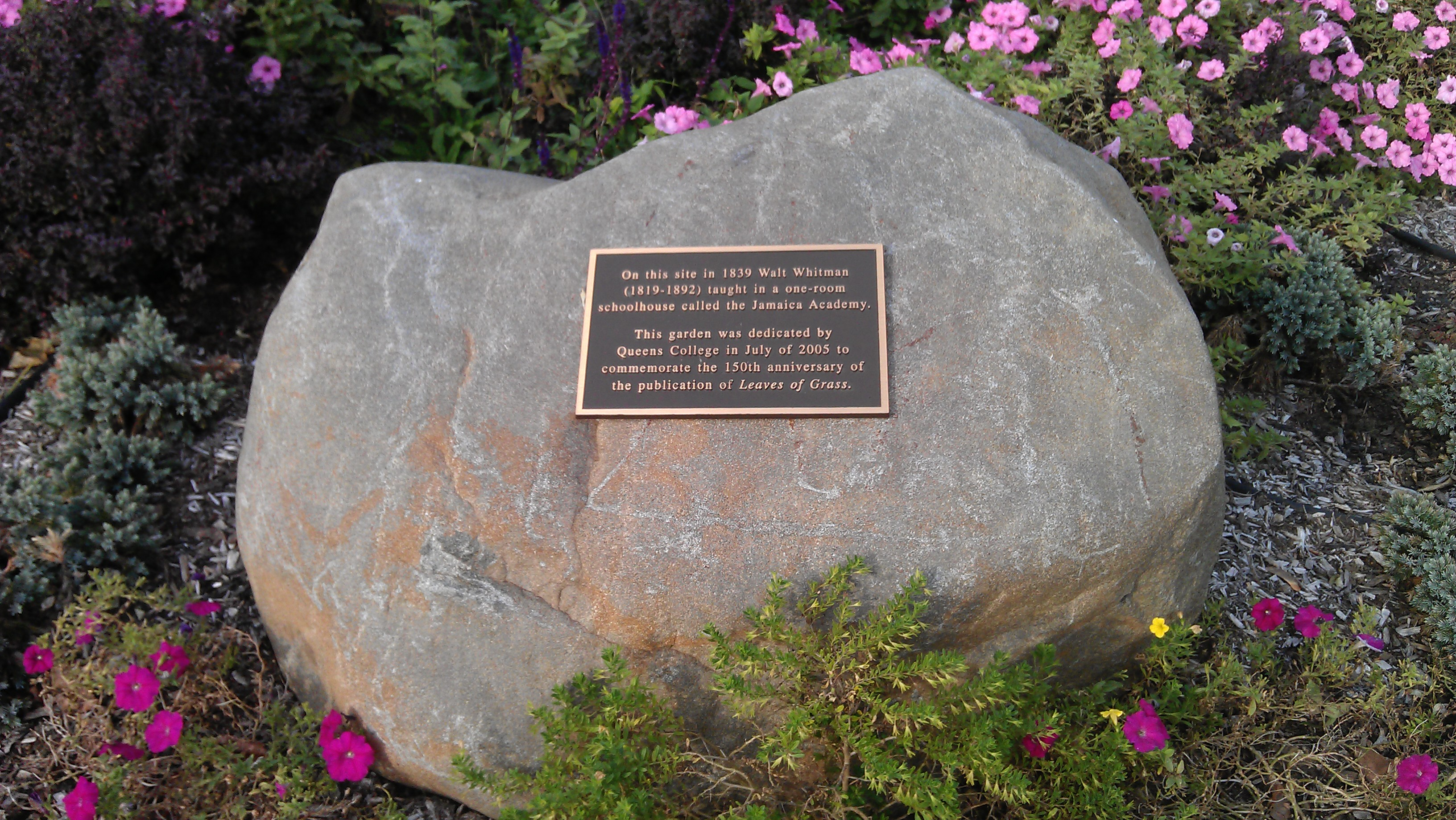 This marker, just outside the Student Union Building marks the original location of the one room school house that Walt Whitman taught in.